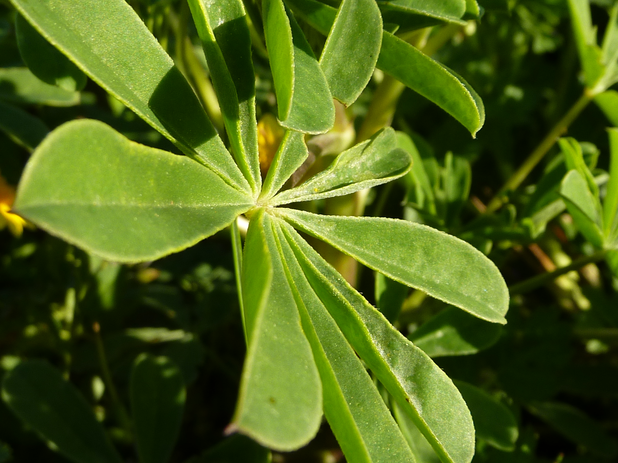 Lupinus succulentus (Arroyo Lupine) leaf near William Hopkins Junior High School in Fremont, CA